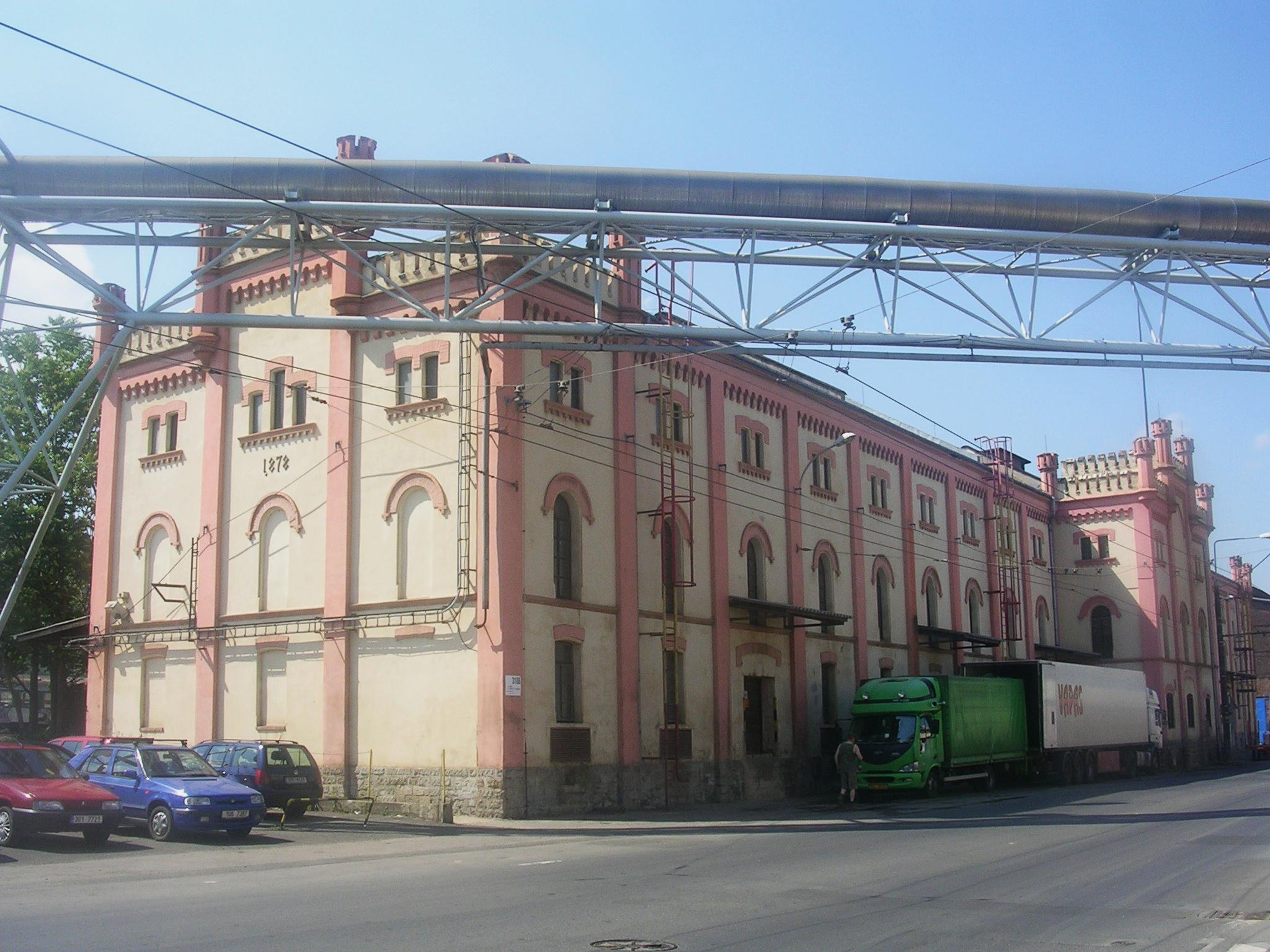 Ústí nad Labem, the Czech Republic.